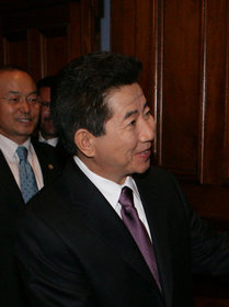 President George W. Bush welcomes President Roh Moo-hyun of the Republic of Korea, to a meeting Friday, Sept. 7, 2007, at the InterContinental hotel in Sydney. President Bush told his counterpart, "...When we have worked together, we have shown that it's possible to achieve the peace on the Korean Peninsula that the people long for. So thank you, sir."